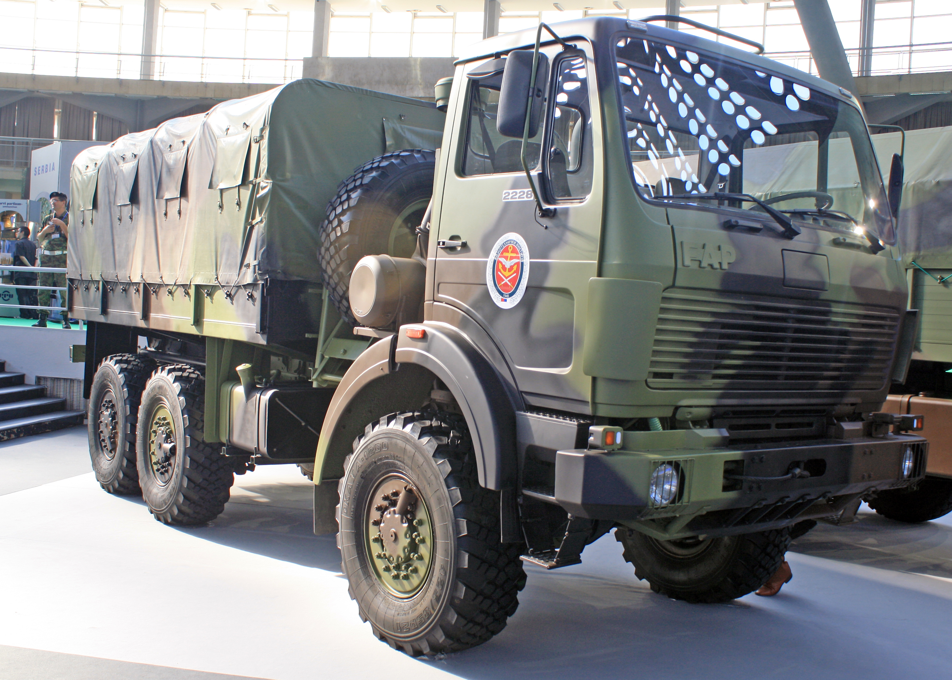 New FAP 2228 6x6 military truck of Serbian Army on display at "Partner 2013" military fair.